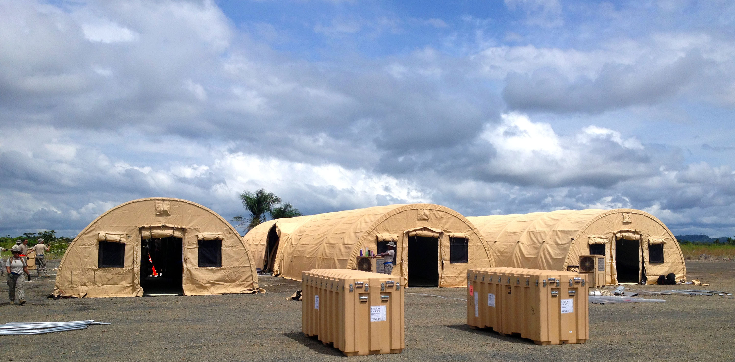 Construction continues on the Monrovia Medical Unit. The 25-bed hospital will provide medical care to healthcare workers supporting Operation United Assistance. The U.S. Agency for International Development is the lead U.S. Government organization for Operation United Assistance. U.S. Africa Command is supporting the effort by providing command and control, logistics, training and engineering assets to contain the Ebola virus outbreak in West African nations. (U.S. Army Africa by Command Sgt. Maj. Jeffery T. Stitzel)